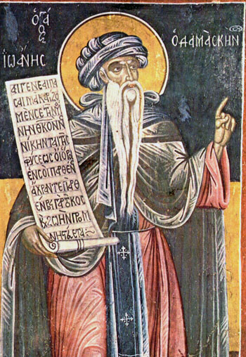 John of Damascus, painting by Michael Anagnostou Chomatzas locate in